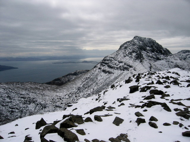 Askival, Rum Viewed from summit of Hallival.